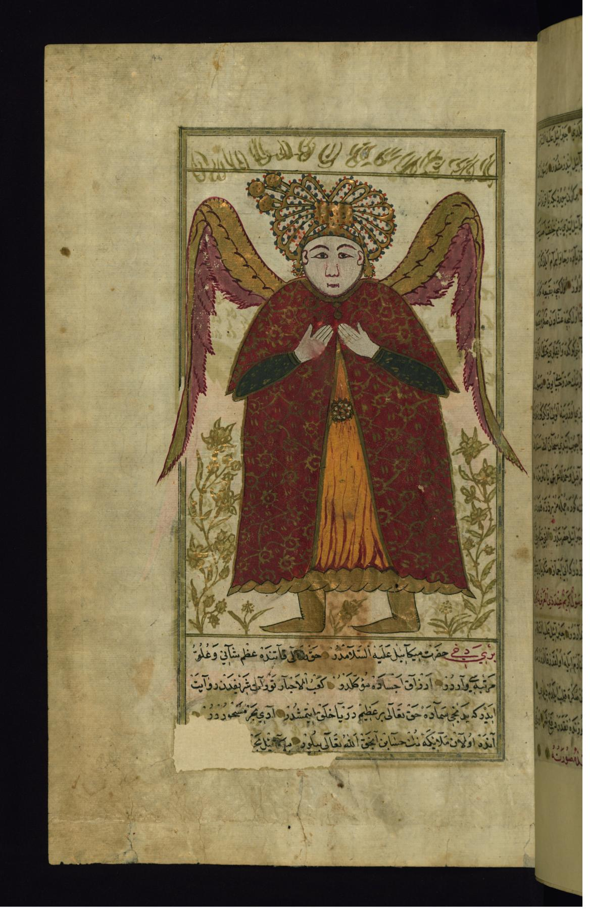 This illustration from Walters manuscript W.659 depicts the Archangel Gabriel (Jibra'il).